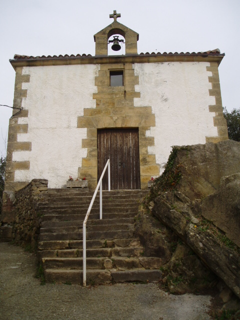 Santa Barbara chapel in Zarautz (Gipuzkoa).